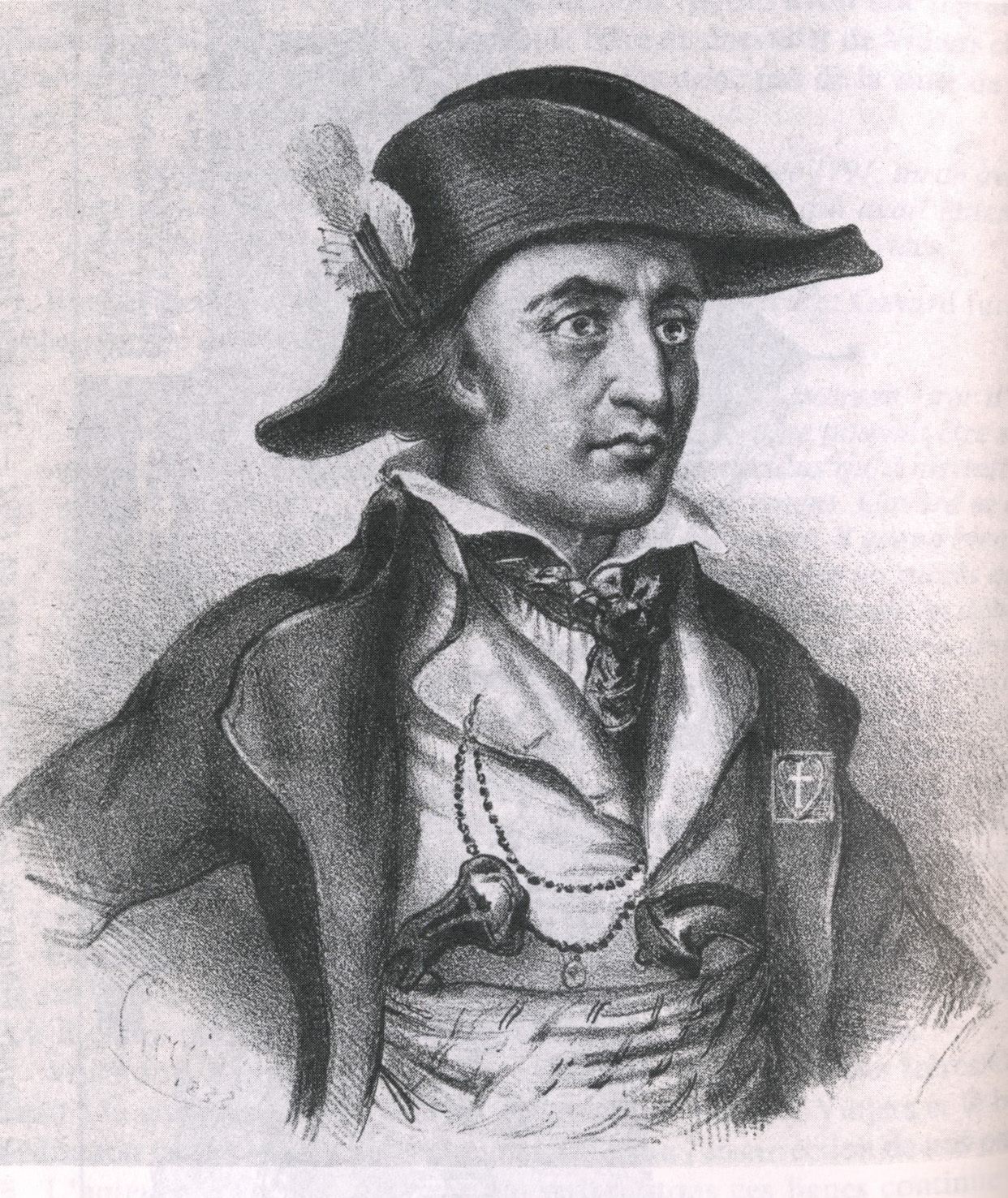 Jean Chouan